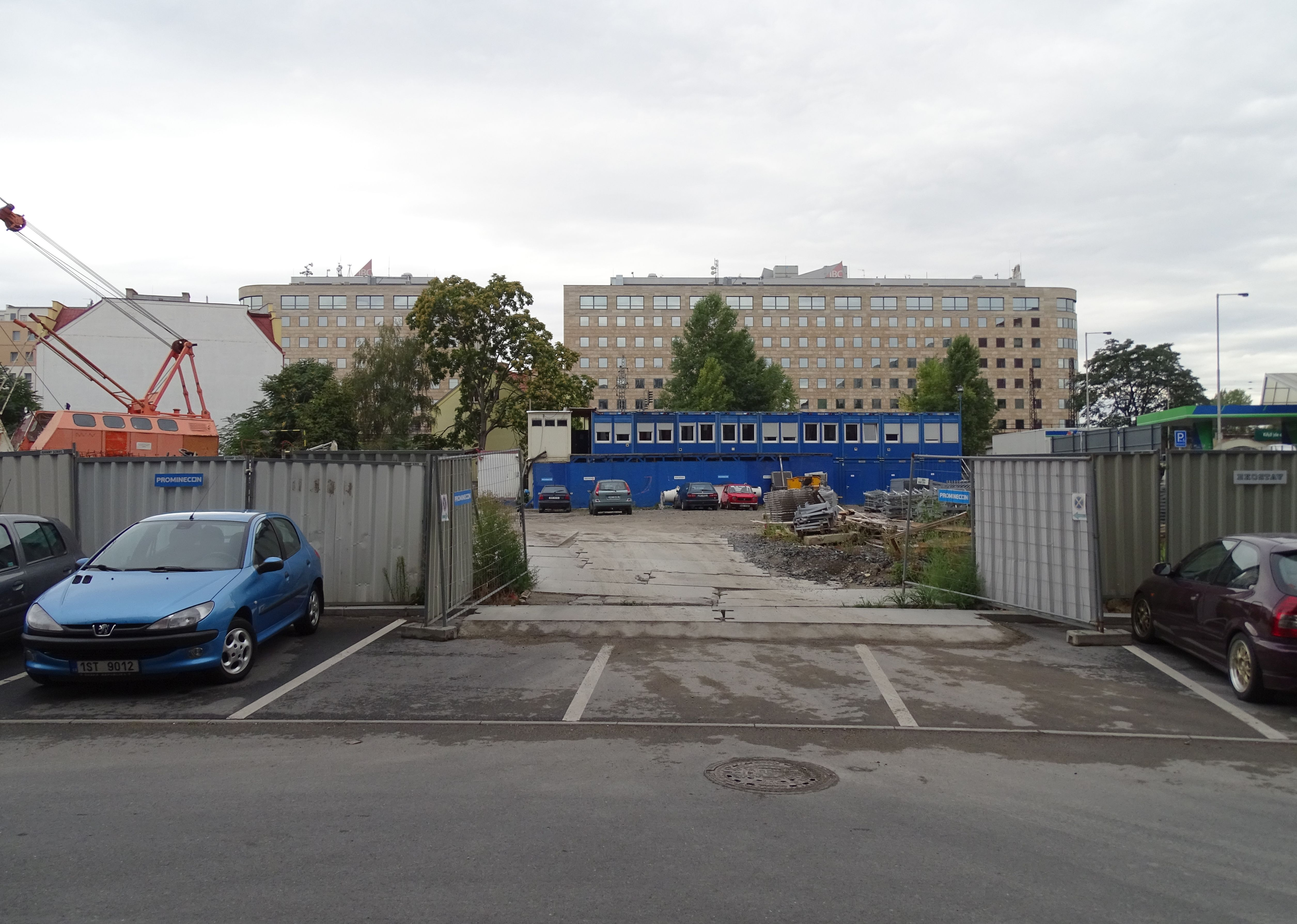 Prague-Karlín, Czech Republic. Kelsenova street, a view to IBC building.